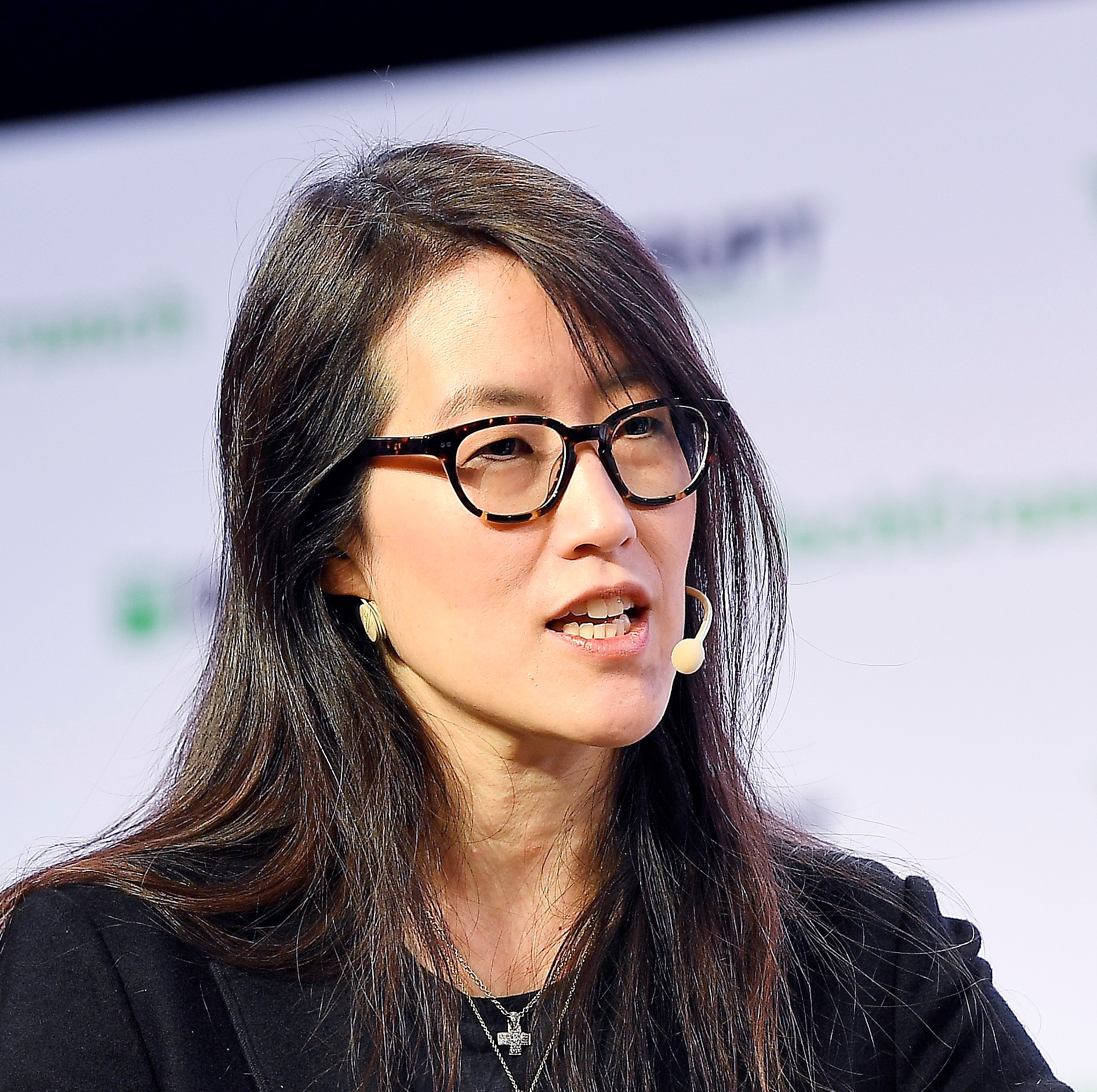 SAN FRANCISCO, CALIFORNIA - OCTOBER 04: Project Include Co-Founder & CEO Ellen Pao speaks onstage during TechCrunch Disrupt San Francisco 2019 at Moscone Convention Center on October 04, 2019 in San Francisco, California. (Photo by Steve Jennings/Getty Images for TechCrunch)